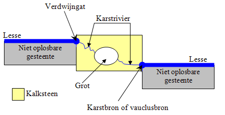 Diagram showing how a water course creates a karst (underground passage).